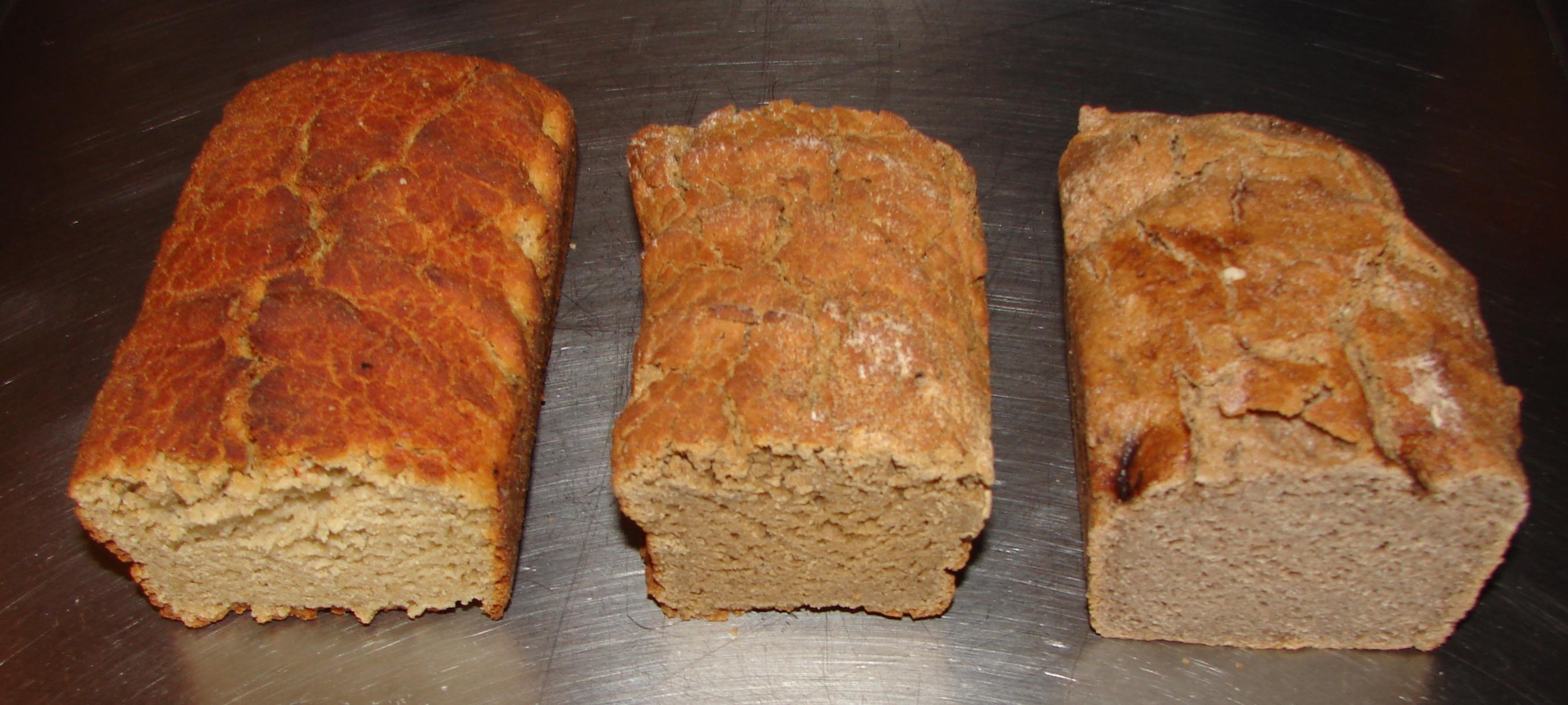 Organic breads of quinoa, teff and buckwheat